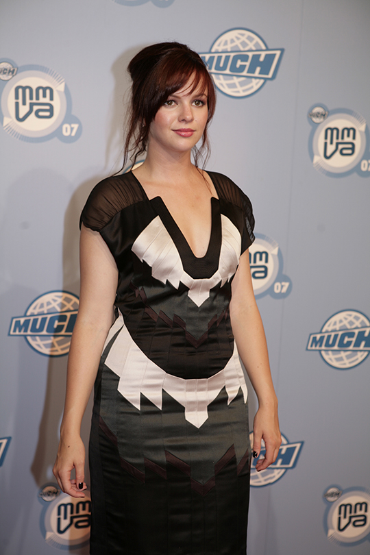 Amber Tamblyn was an attendee at the 2007 MuchMusic Video Awards, held the night of Sunday, June 17, 2007 in Toronto, Ontario, Canada.